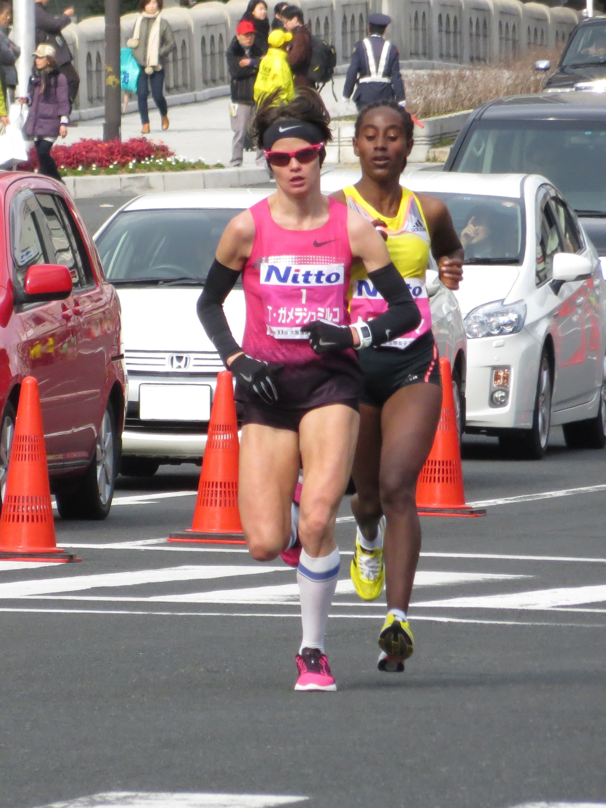 Tetyana Hamera-Shmyrko in Osaka International Ladies Marathon 2014. Deitsch: Tetjana Hamera-Schmyrko.